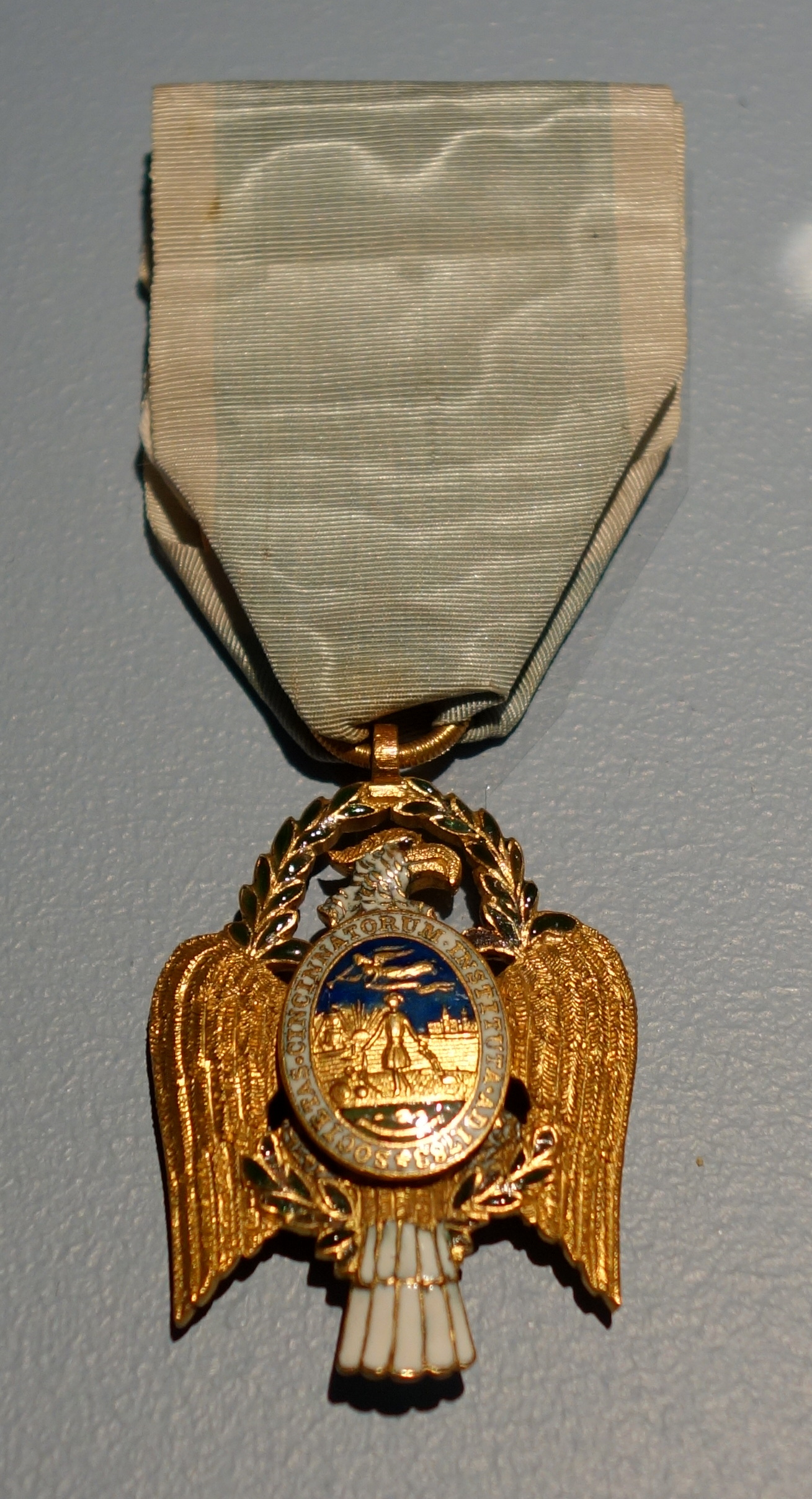 Exhibit in the Cincinnati Art Museum, Cincinnati, Ohio, USA. This artwork is in the public domain because the artist died more than 70 years ago.